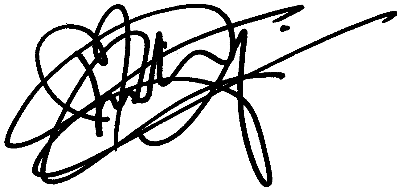 Signature of Christina Aguilera.